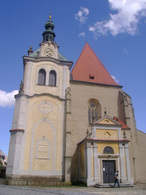 SS Peter and Paul church in Žlutice